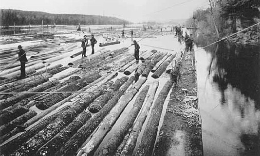 Log sorting at the St Croix Boom near Stillwater, Minnesota, United States, in 1886.